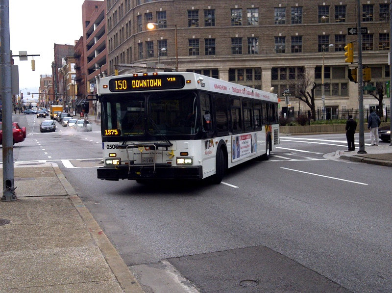 MTA Maryland New Flyer bus #5011 on the #150 Line turning onto East Baltimore Street from North Liberty Street.